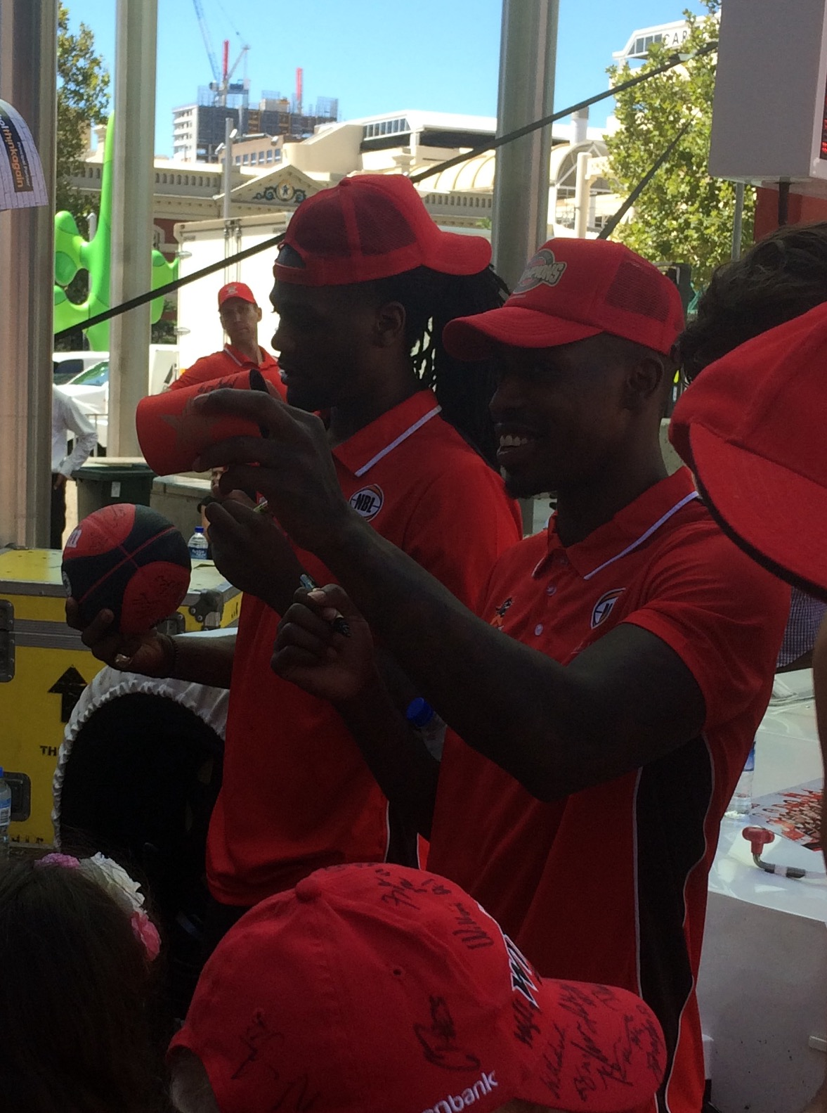 Jameel McKay and Casey Prather at the Perth Wildcats' 2017 championship celebration